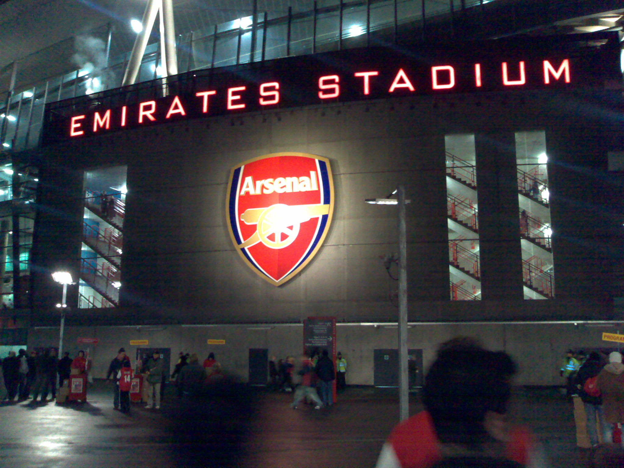 Outside the Emirates Stadium.